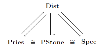 Diagram of categorical duality between bounded distributive lattices, Priestley spaces, Spectral spaces and Pairwise Stone spaces.